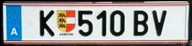 license plate from Austria